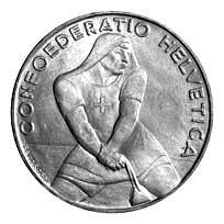 Swiss Commemorative Coin 1939 CHF 5 obverse